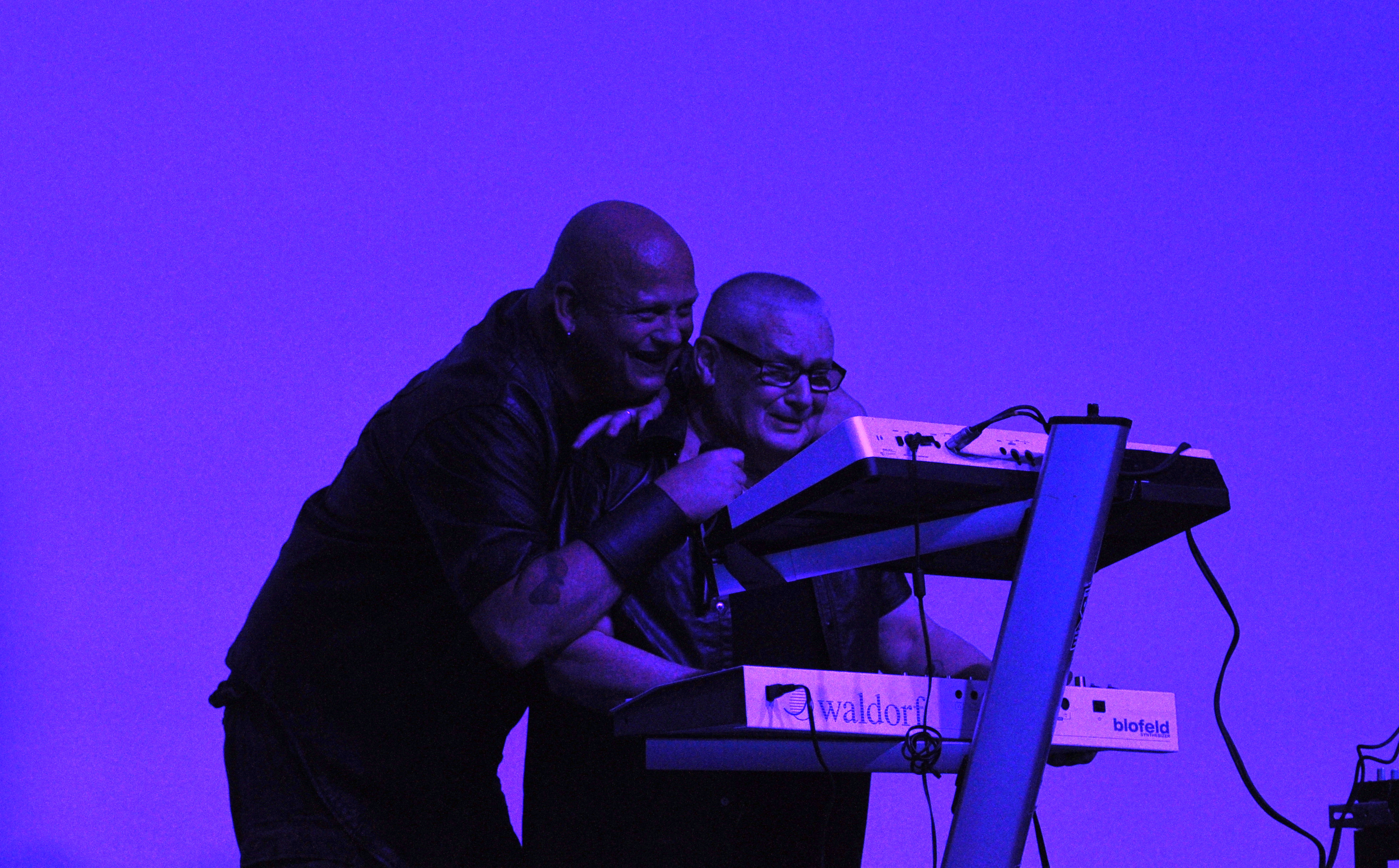 The Band Leæther Strip from Denmark at e-tropolis 2013, Berlin